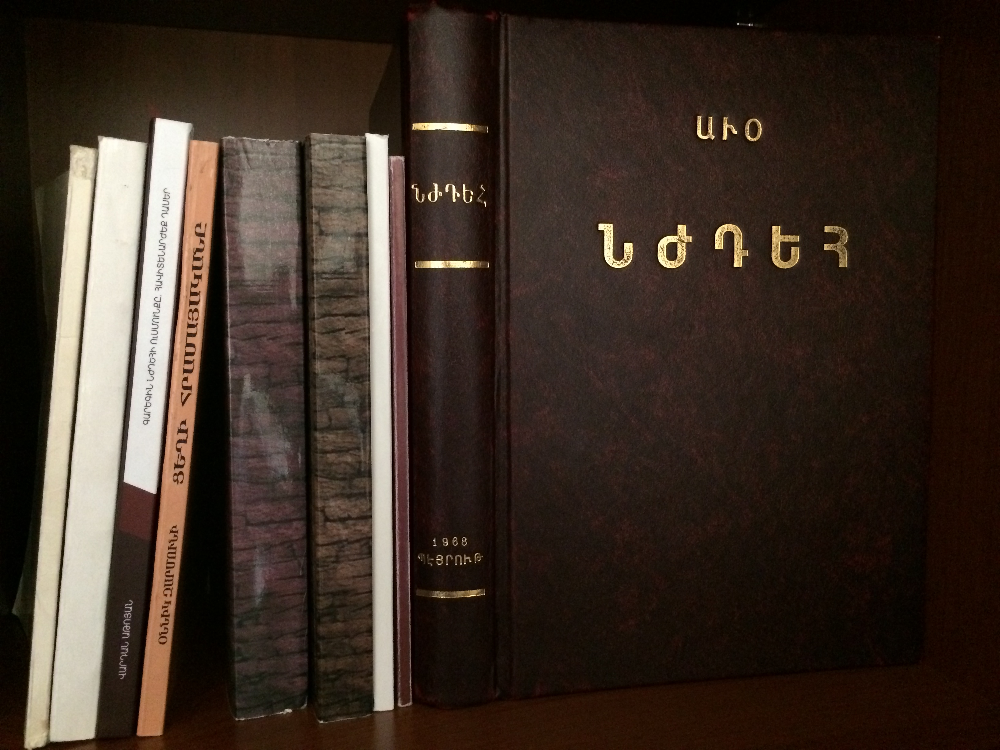 Collection of books about Garegin Nzhdeh.